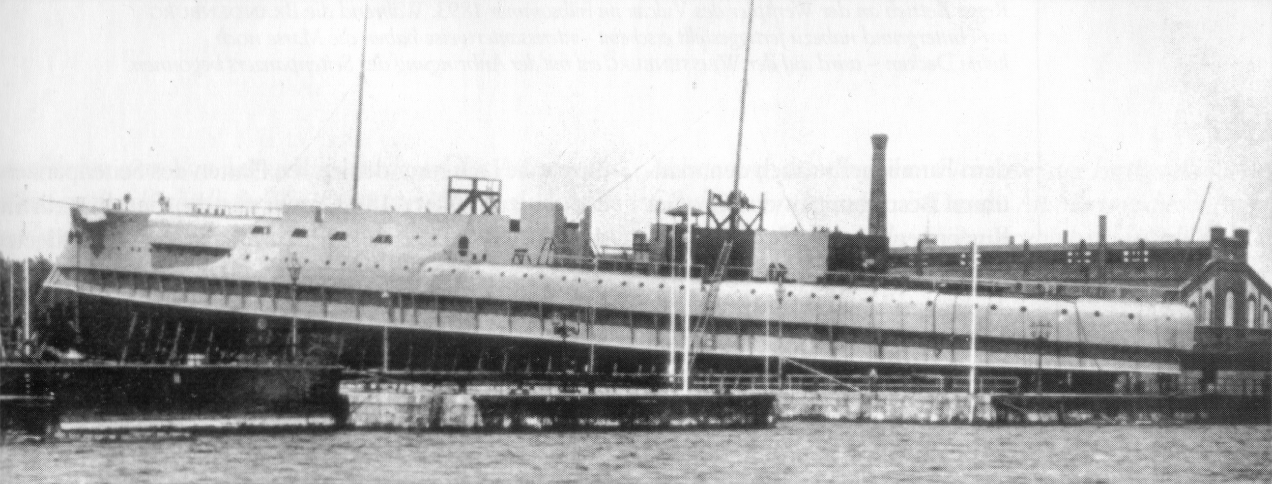 The German battleship SMS Kurfürst Friedrich Wilhelm befor launching.